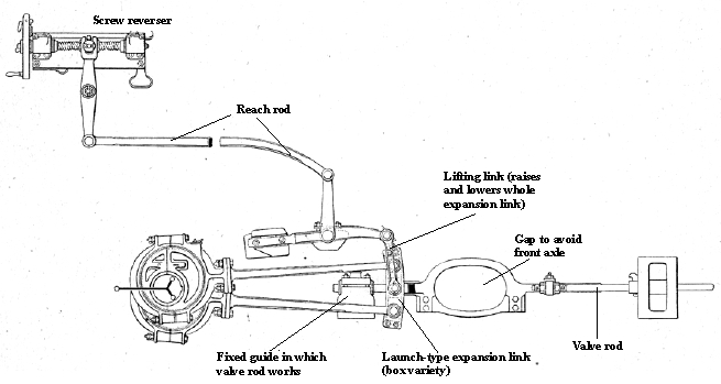 Stephenson link valve gear, with screw reverser. In 1937, the company merged with the locomotive interests of Hawthorn Leslie and Company to form Robert Stephenson and Hawthorns Limited.